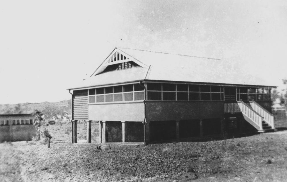 Mount Isa Mines State School 1930. When new buildings were built in the 1970s, the school was renamed Happy Valley State School.